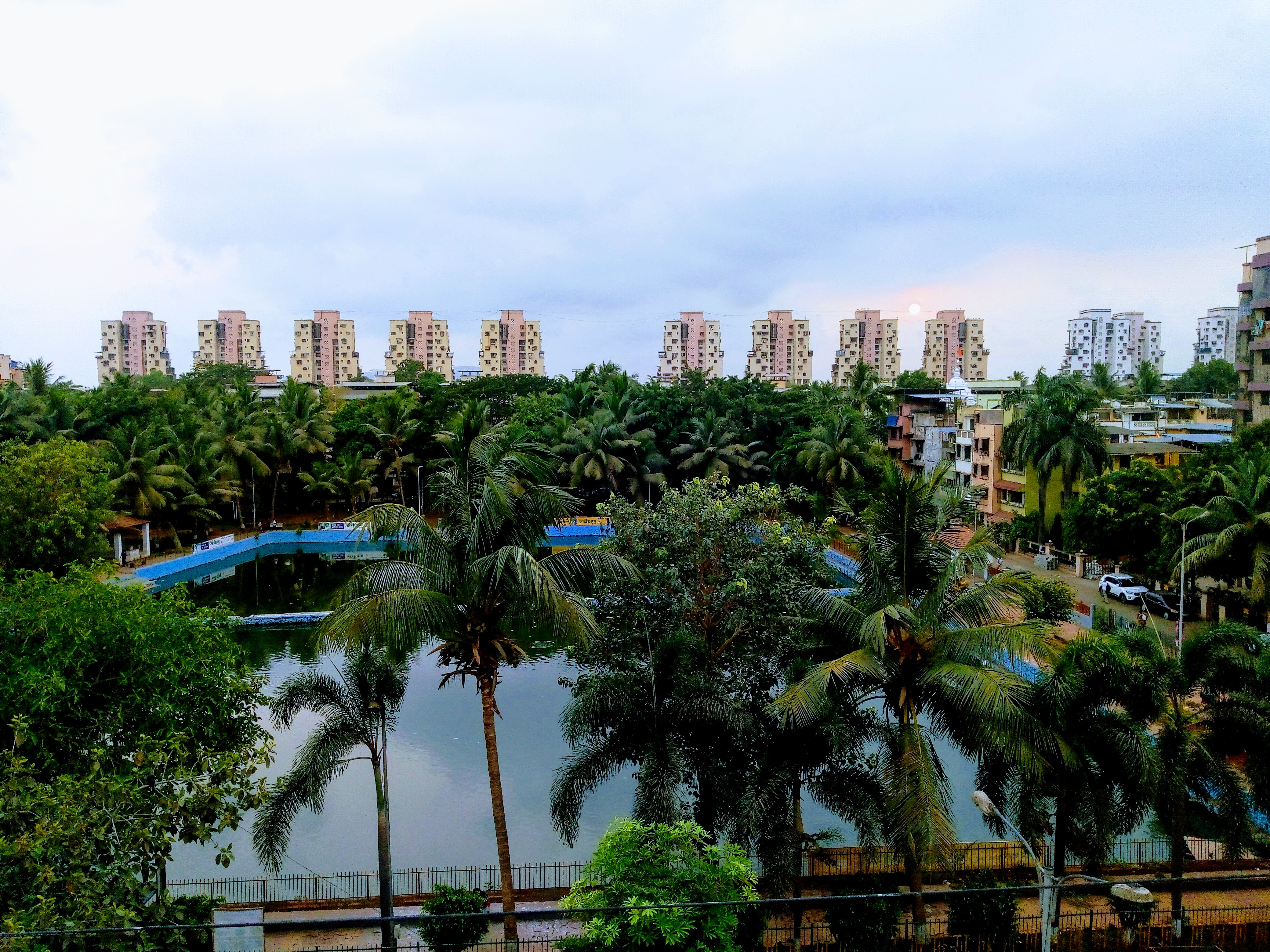 Nerul water pond